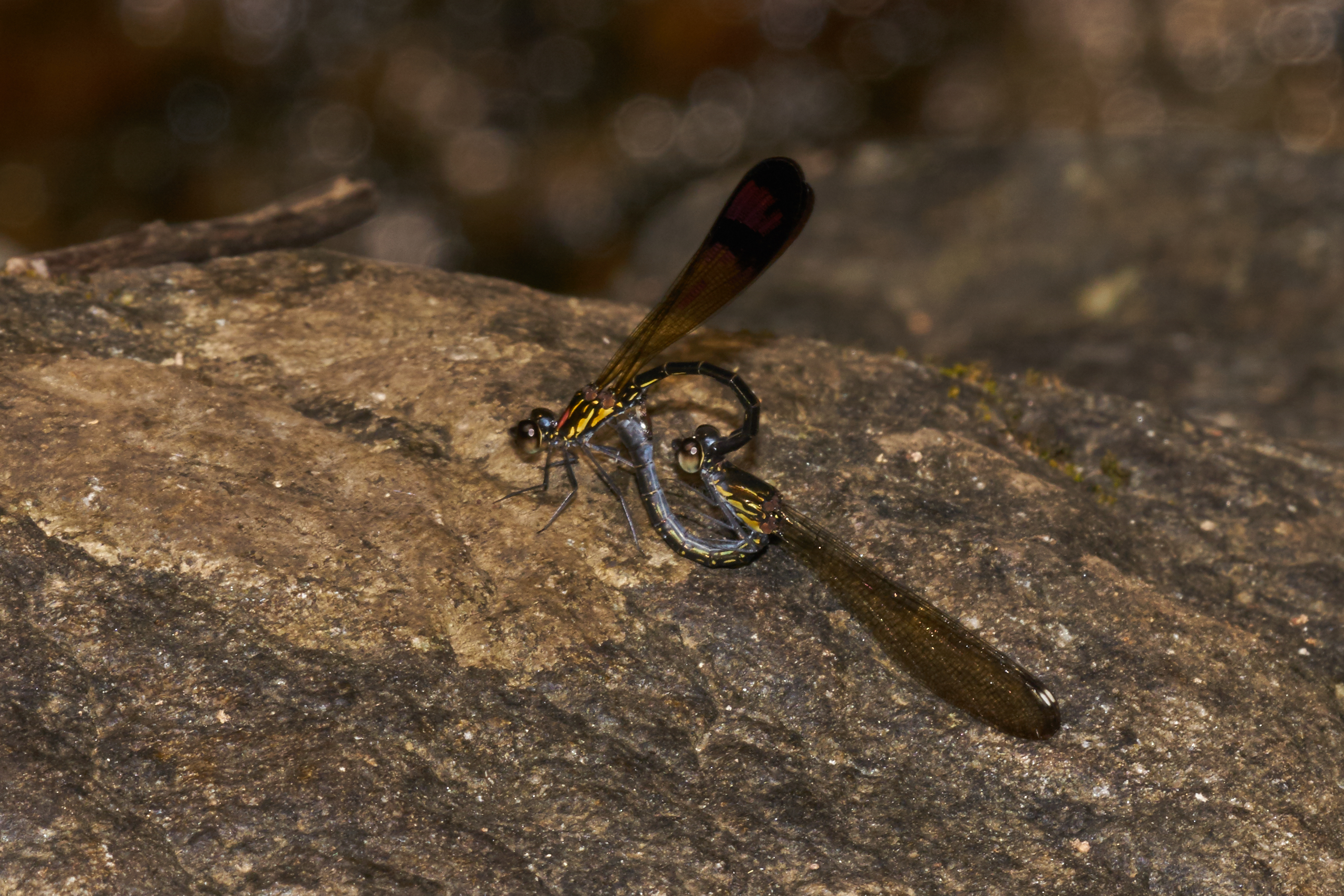 Rhinocypha bisignata, Stream ruby, is a stream breeding species in the family Chlorocyphidae, endemic to India, distributed in South India. It is a small black and red damselfly with red coloured iridescent streaks on wings, which are longer than abdomen. Female is similar to male but markings more yellowish than reddish and yellow-tinted transparent wings.